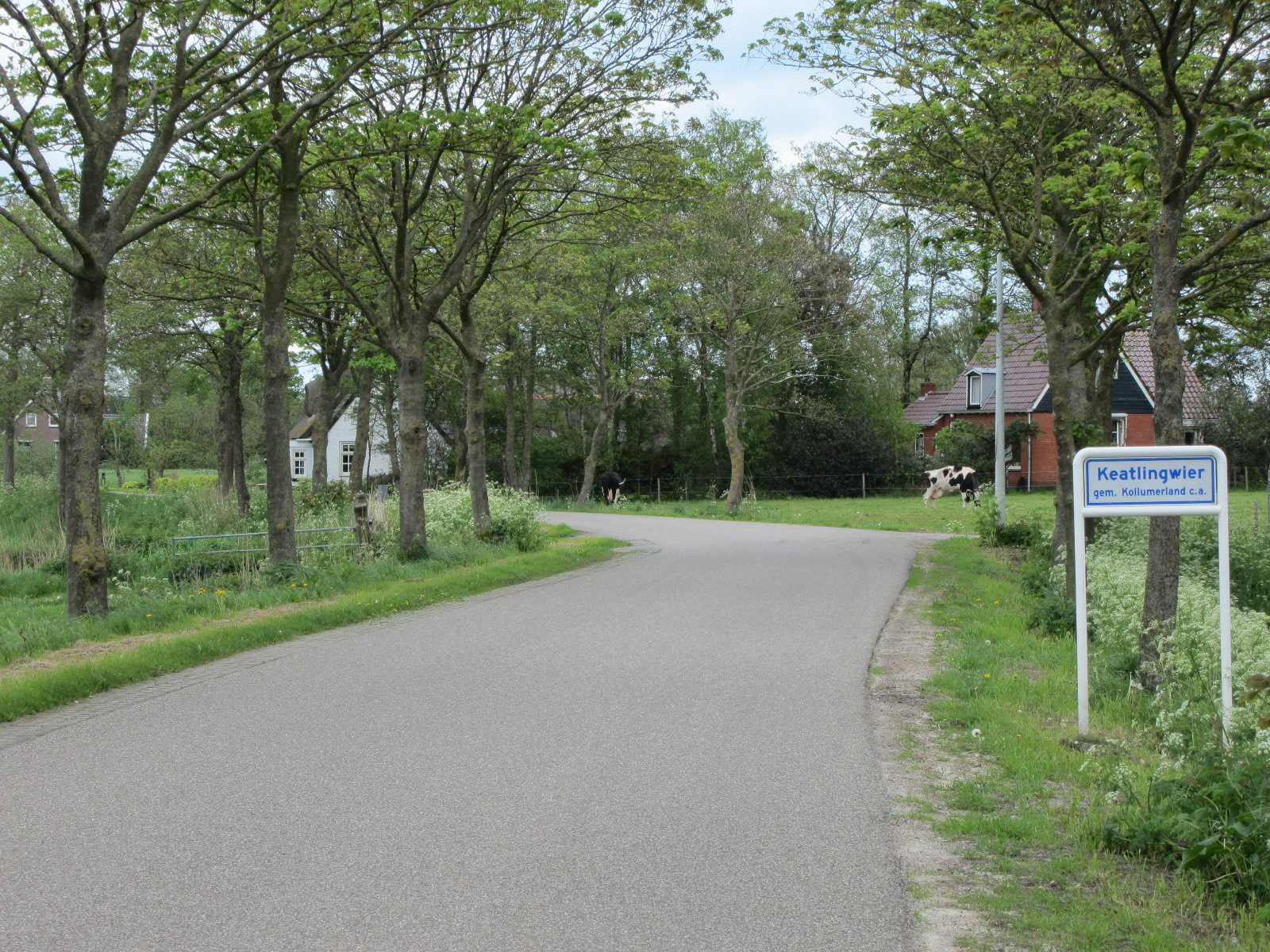 Hamlet Kettingwier (Keatlingwier), county Friesland, The Netherlands.